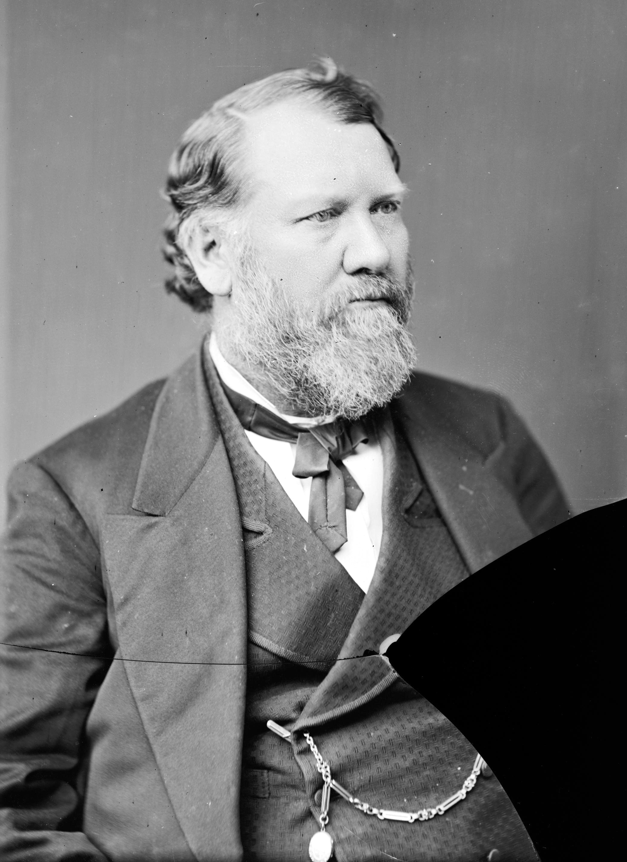 Winthrop Welles Ketchum. Library of Congress description: "Ketchum, Hon. Winthrop Welles of Pa.". Wikipedia abstract: "Winthrop Welles Ketchum (29 June 1820–6 December 1879) was a Republican member of the U.S. House of Representatives from Pennsylvania."